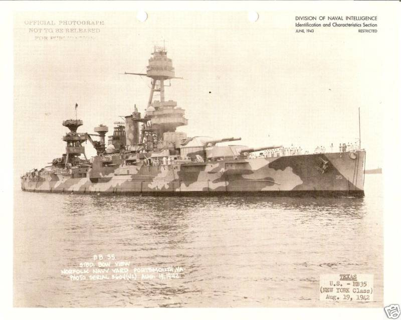 A June 1943 Division of Naval Intelligence, Identification and Characteristics Section print of a 19 August 1942 photo of USS Texas (BB-35).